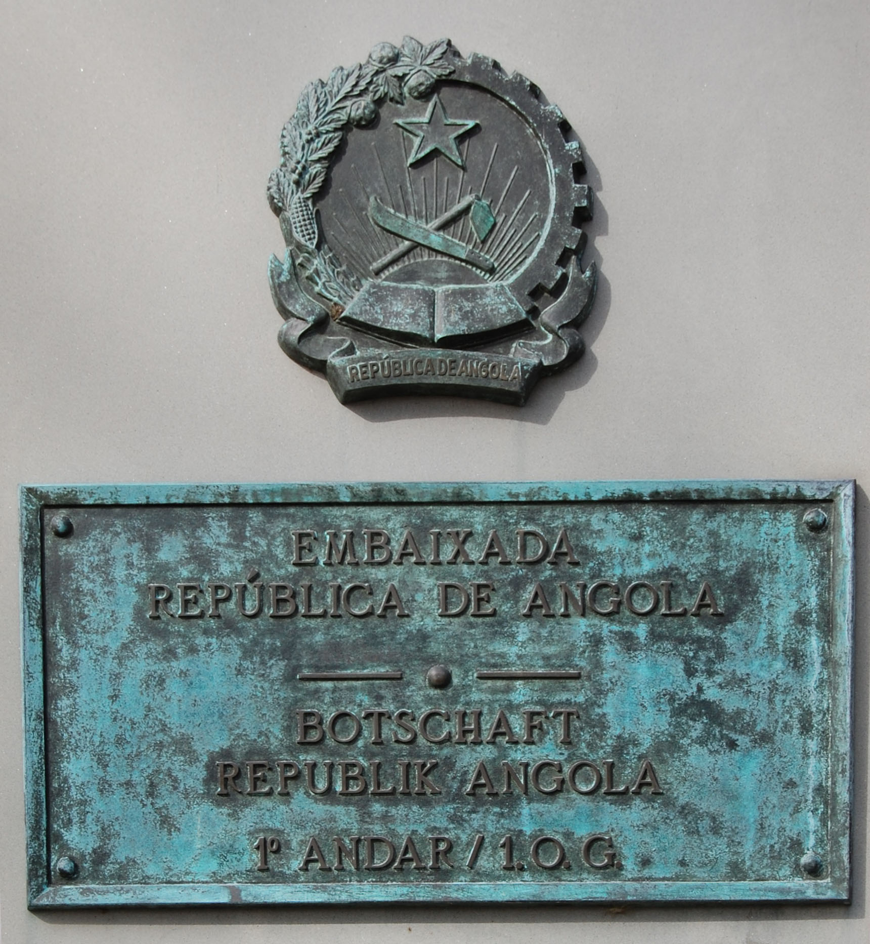 Embassy of Angola in Berlin